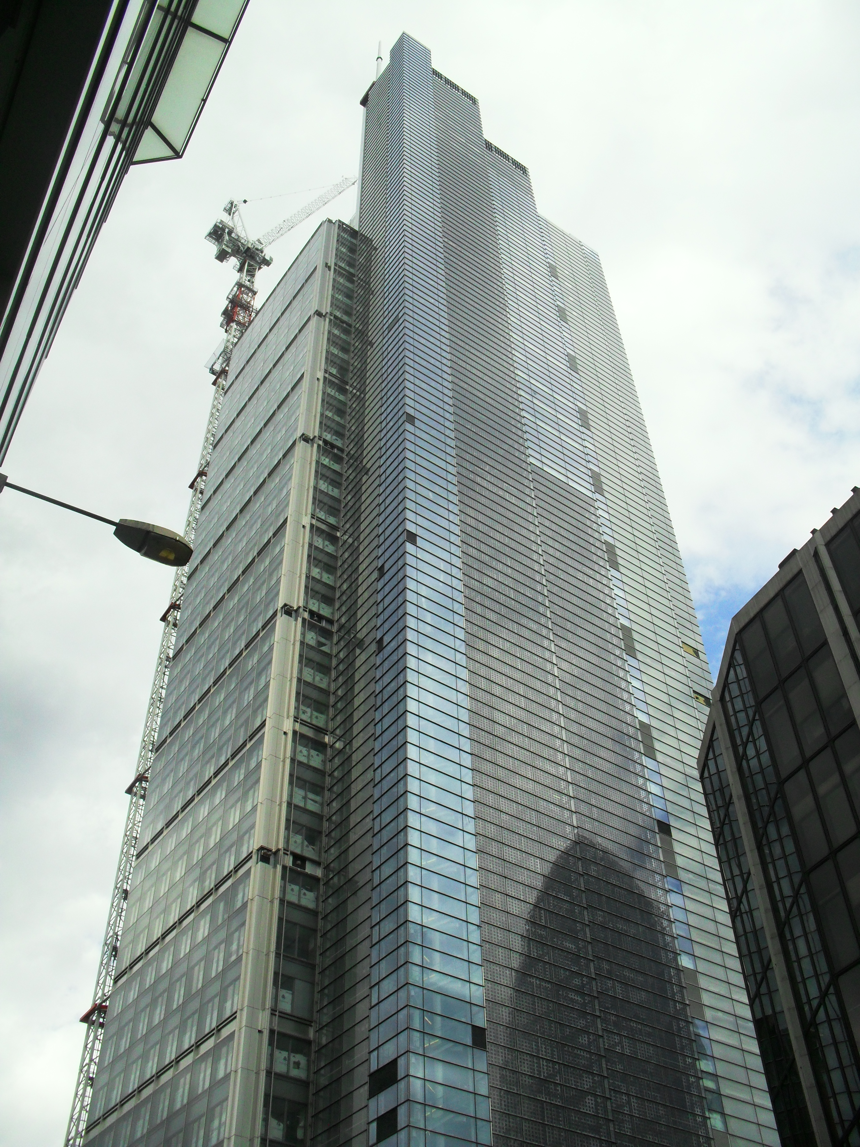 Castlemead, Bristol, England shortly after being topped out.